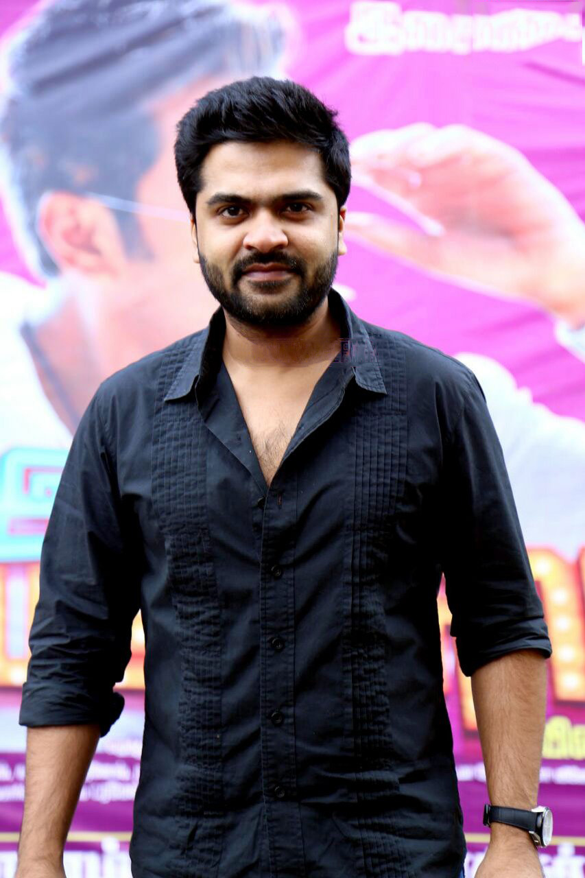 Simbu At The Inimey Ippadithaan Audio Launch